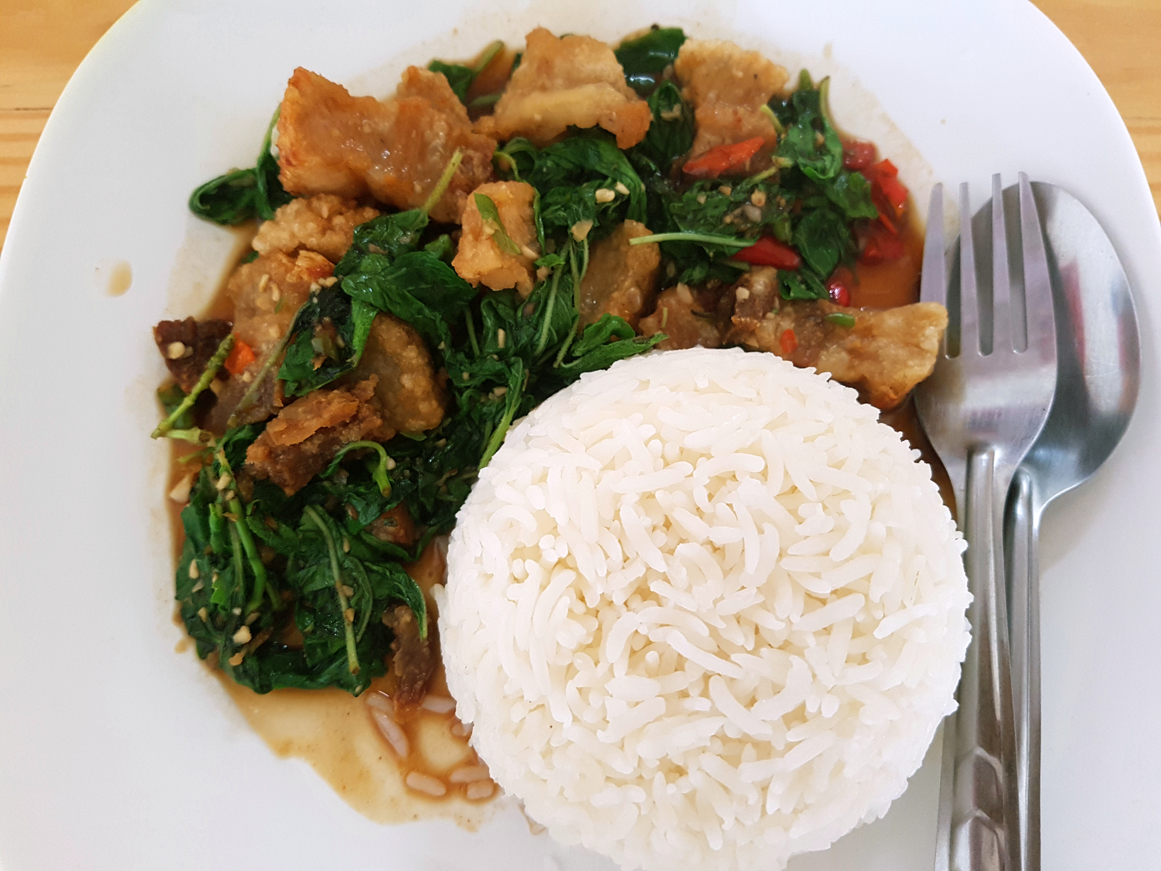 Basil fried crispy pork with rice (ข้าวกะเพราหมูกรอบ) as sold in Chiang Mai, Thailand.